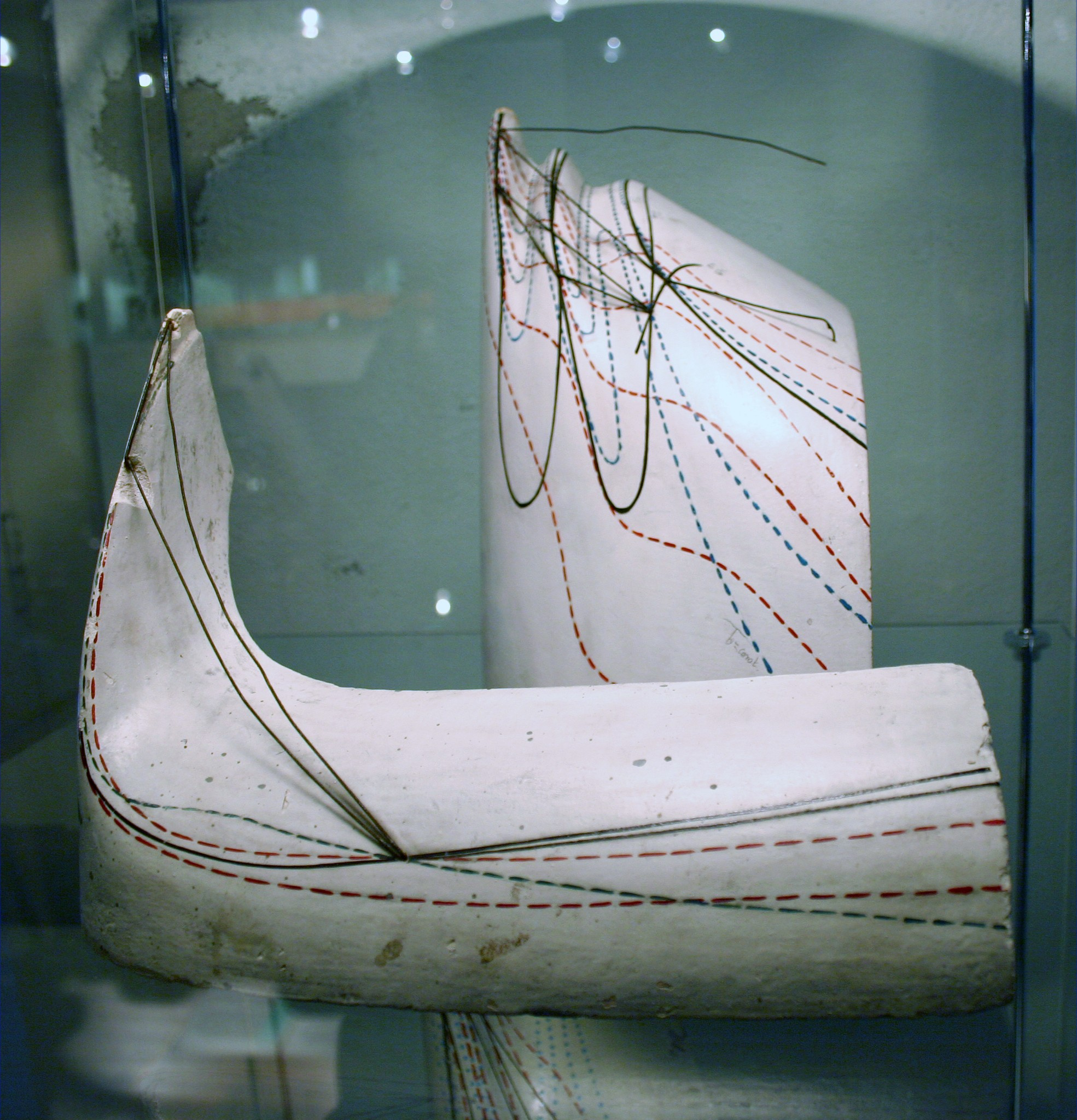 Museum Boerhaave, Leiden - Plaster model of energy surface for carbon dioxide